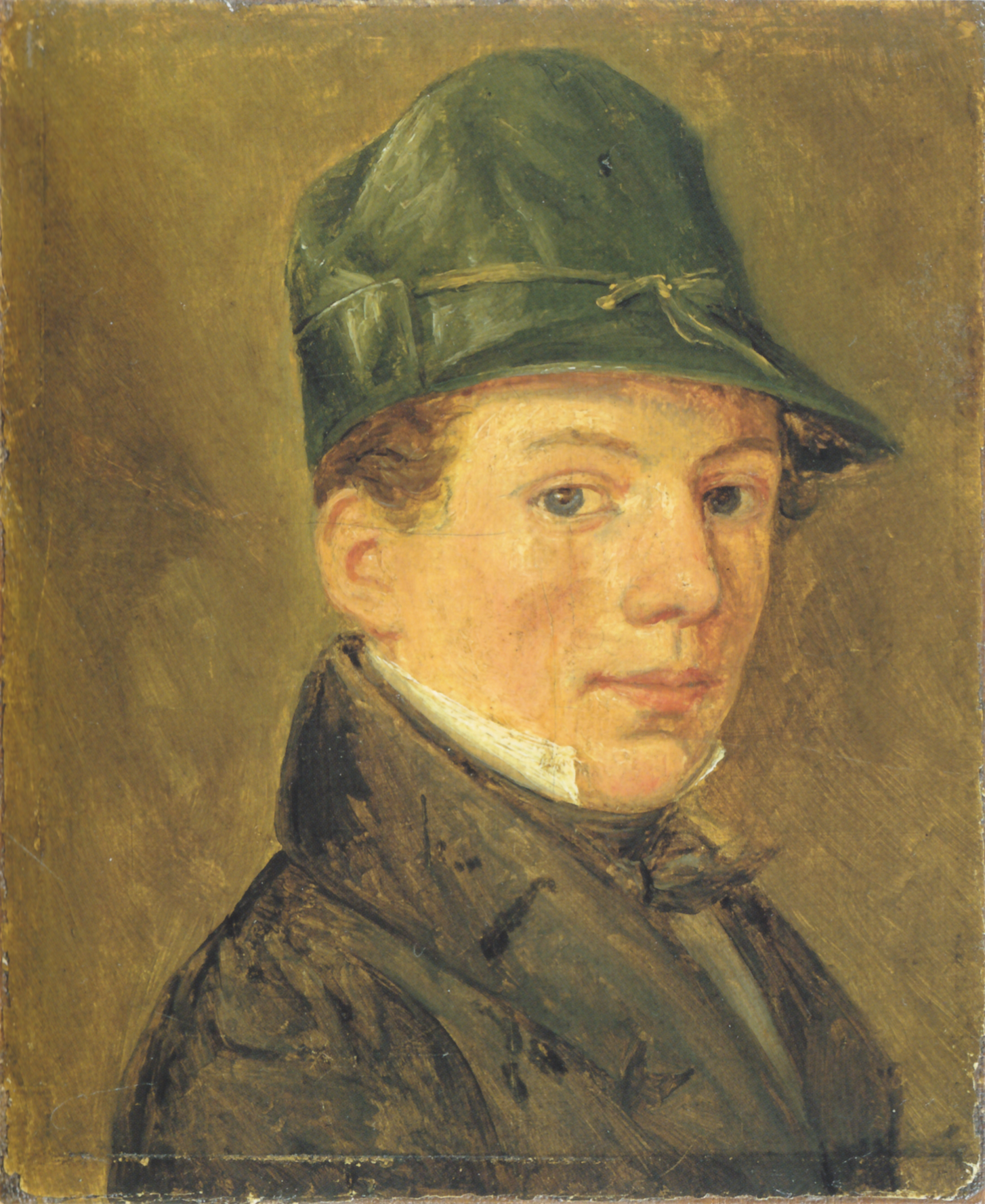 The oldest existing self-portræt by Wilhelm Marstrand is this one from 1834.